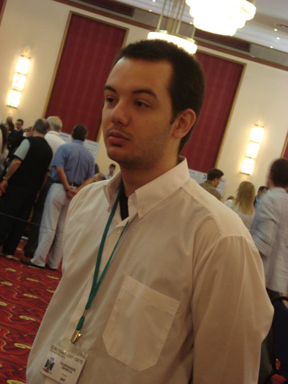 GM Dimitrios Mastrovasilis Greece, Iraklion 2007